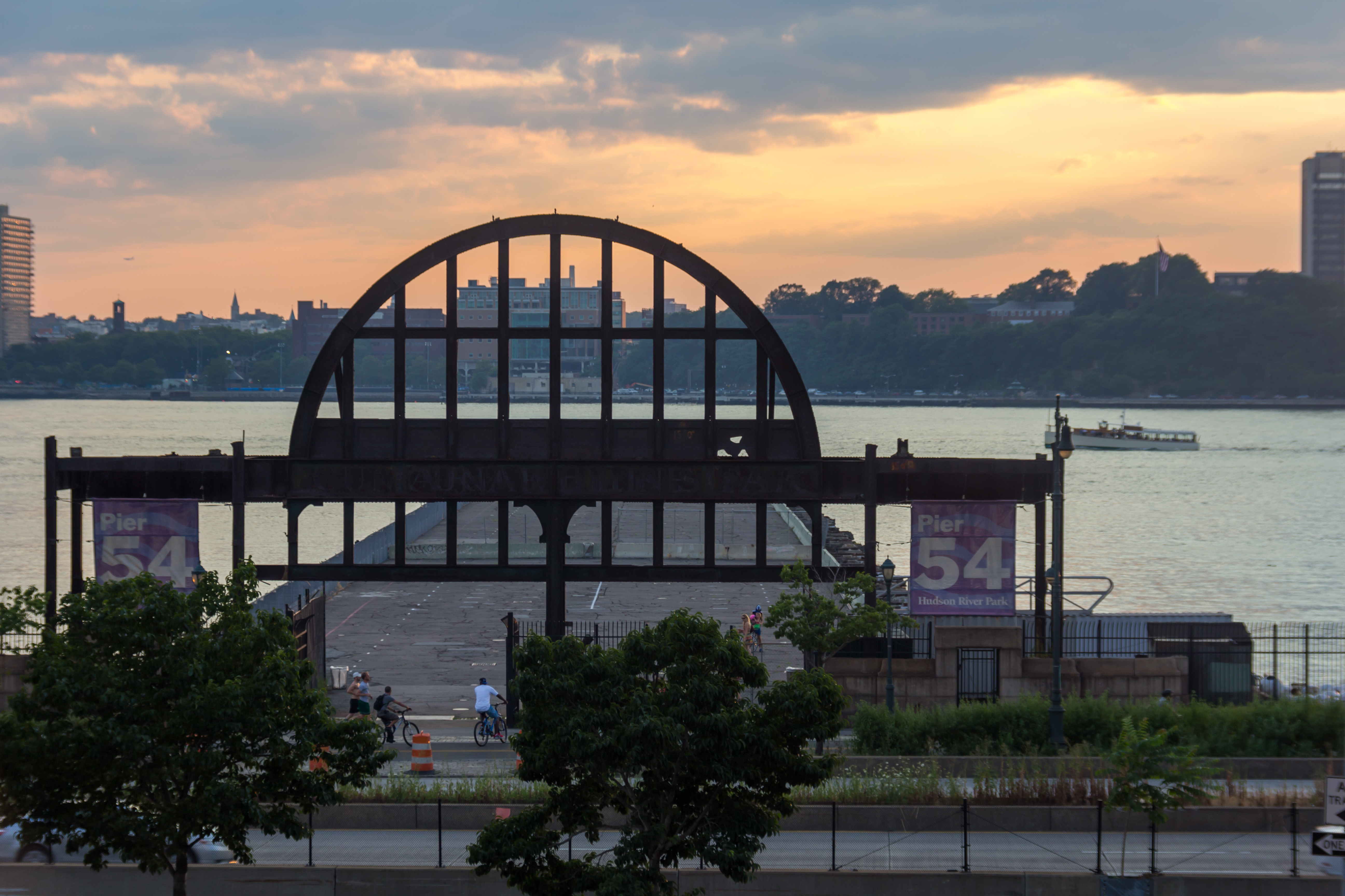 Remant of White Star Line Pier on Hudson River with Hoboken in background from the High Line, New York (2012)